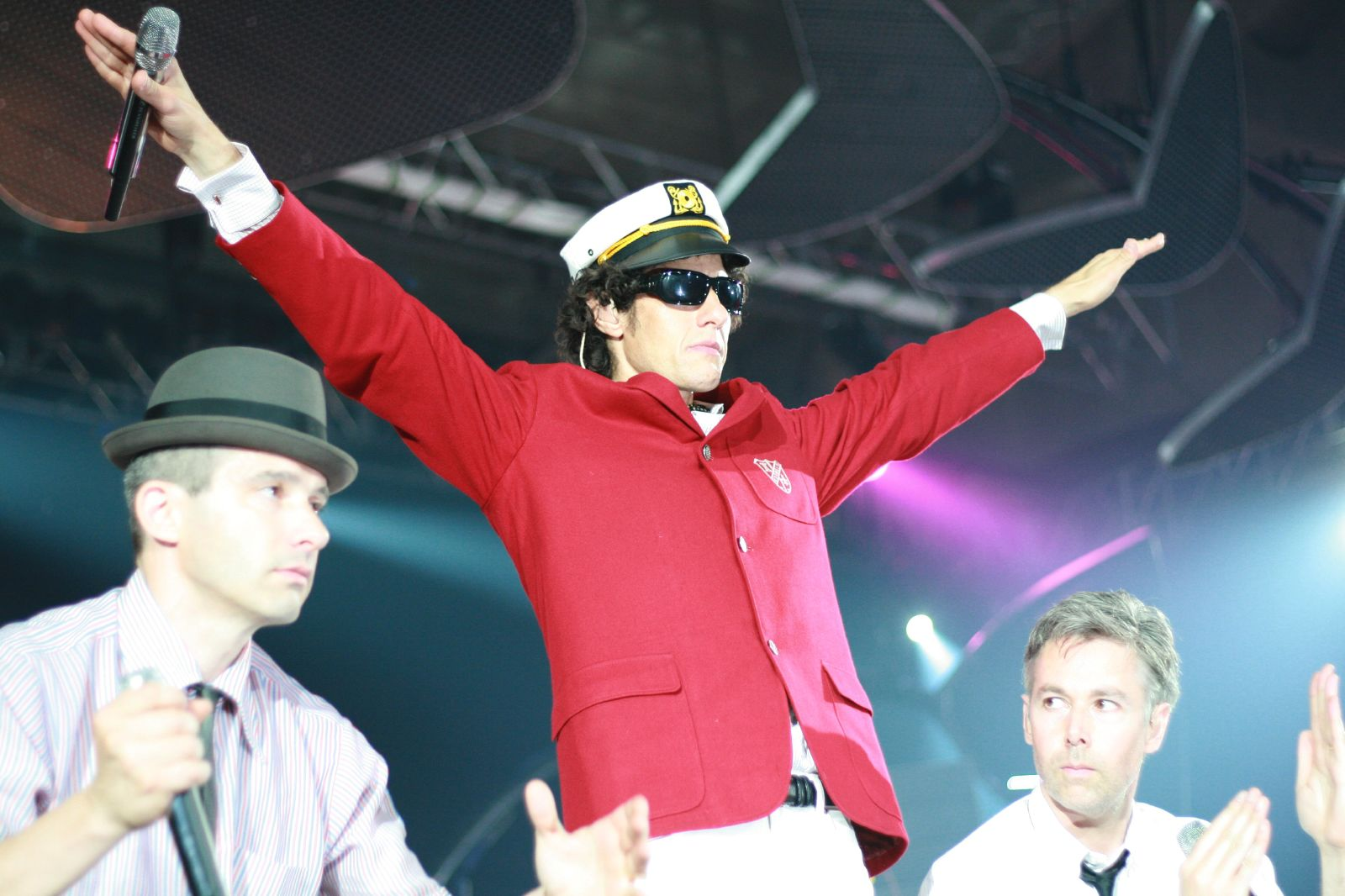 Mike D, Adrock, MCA of the Beastie Boys in Barcelone 07